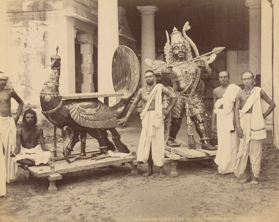 Brahmins and a fakir posed beside two carved images, one of the god Shiva (in jewelled armour and carrying a bow and arrow) and one of a peacock. Photo taken in Sri Lanka.